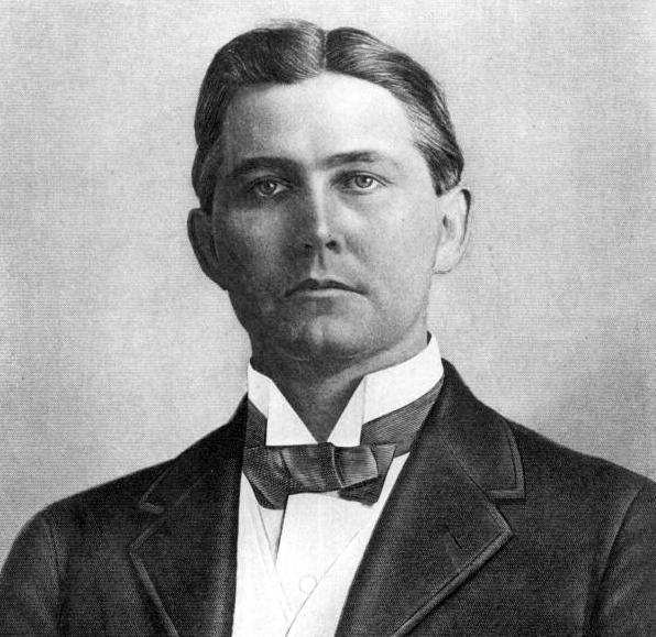 Portrait of William Allen McRae, Florida Commissioner of Agriculture from 1912-1923